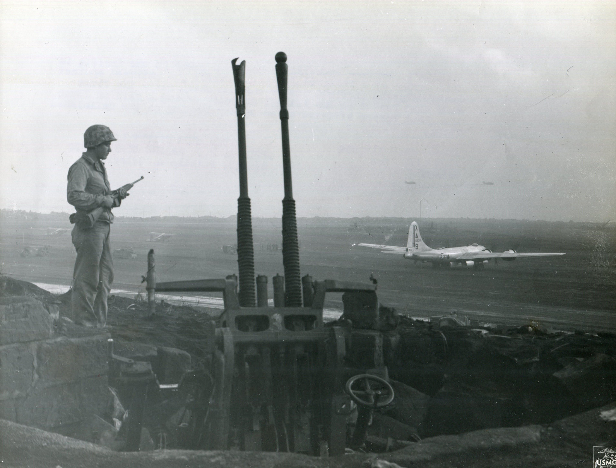 Marine at Japanese Anti-Aircraft Gun, Motoyama Airfield, Iwo Jima